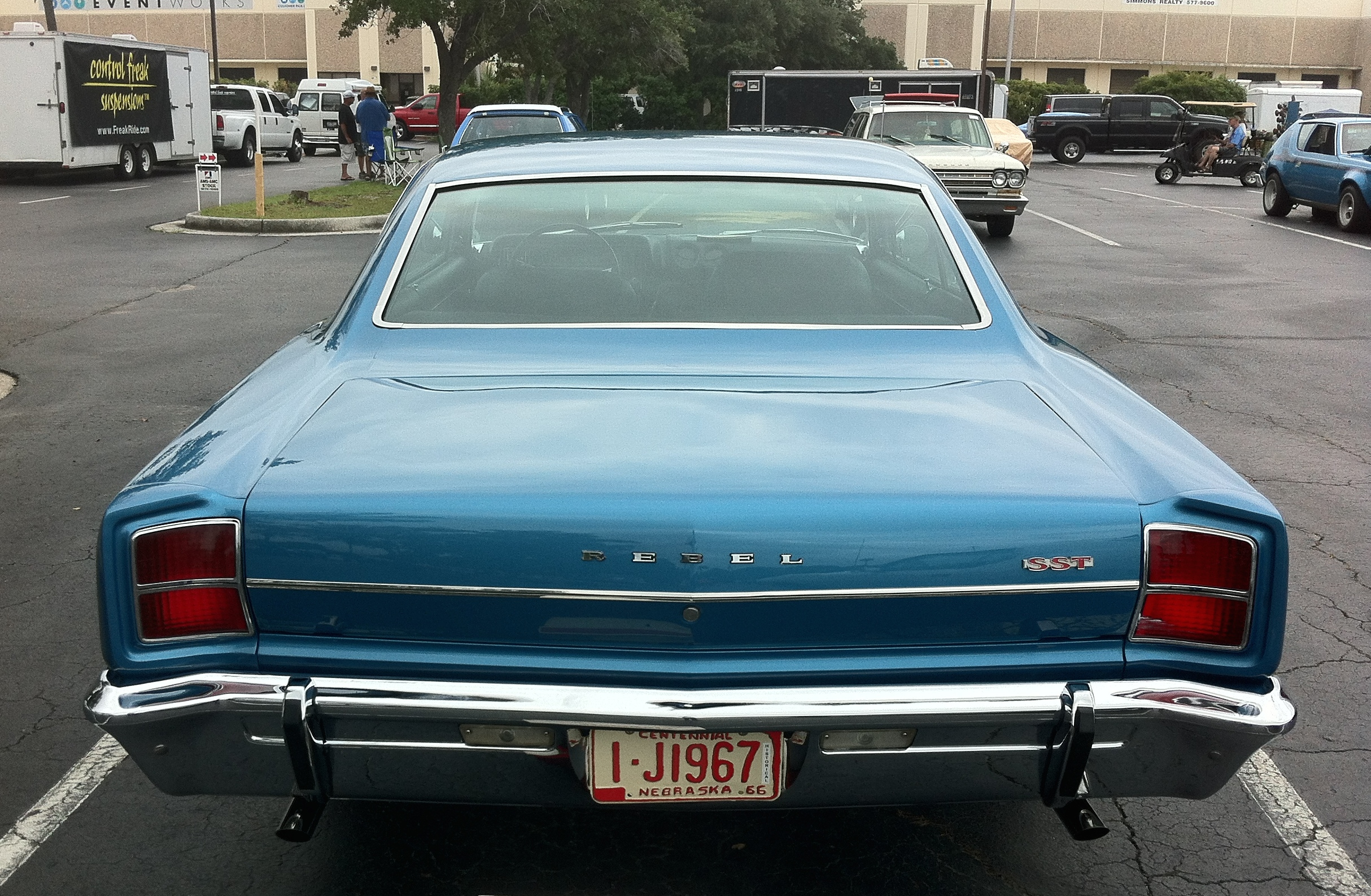 Rear view of a 1967 Rambler Rebel SST two-door hardtop (no "B" pillar) made by American Motors Corporation (AMC). This car also has American Motors' new 343 cu in (5.6 L) 4-bbl V8 engine. Photographed at the 2014 American Motors Owners (AMO) convention that was held in North Charleston, North Carolina, USA.